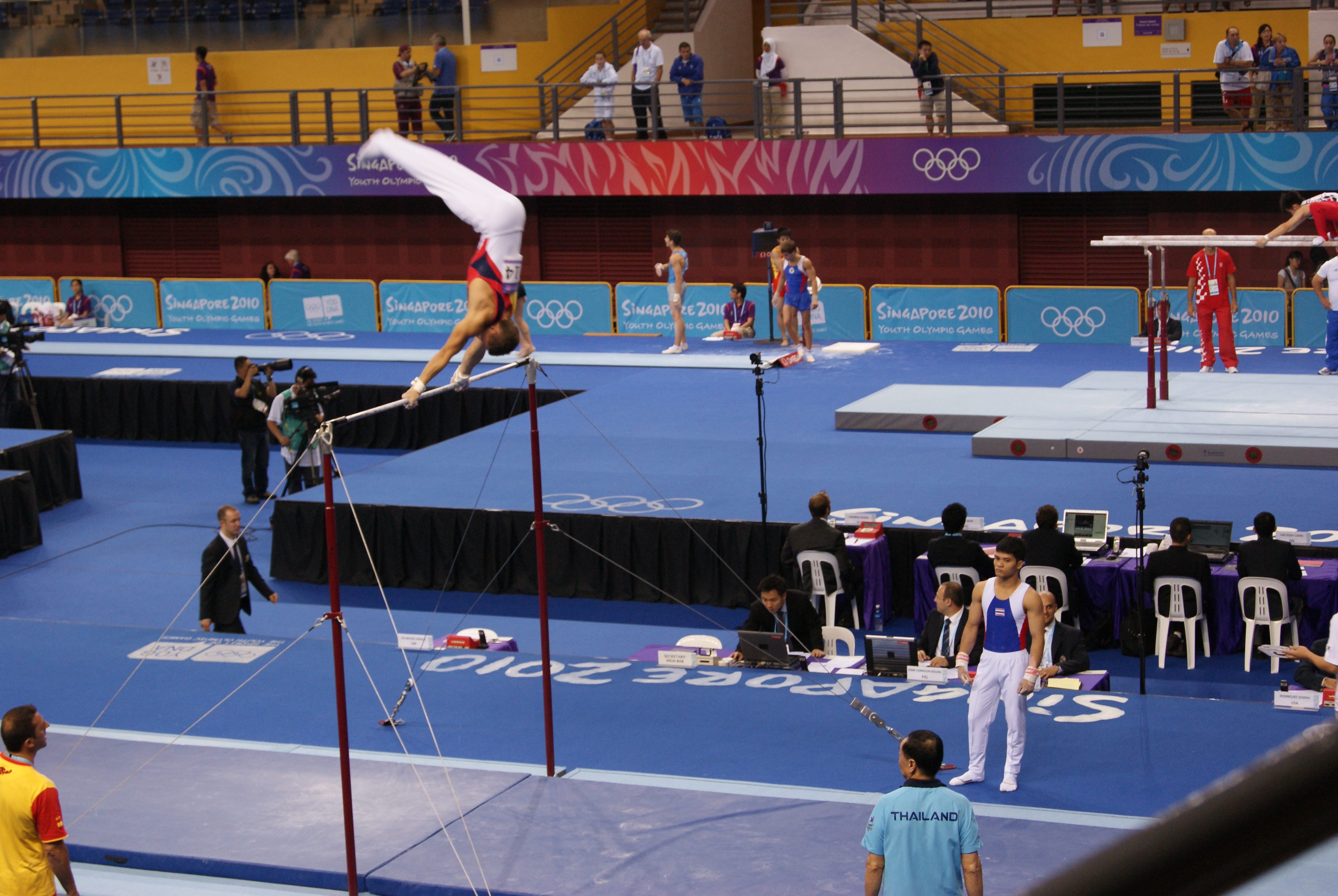 Spanish gymnast Néstor Abad performing on the horizontal bar during Men's Qualification – Subdivision 1 of the artistic gymnastics competition at the 2010 Summer Youth Olympics at Bishan Sports Hall, Singapore.